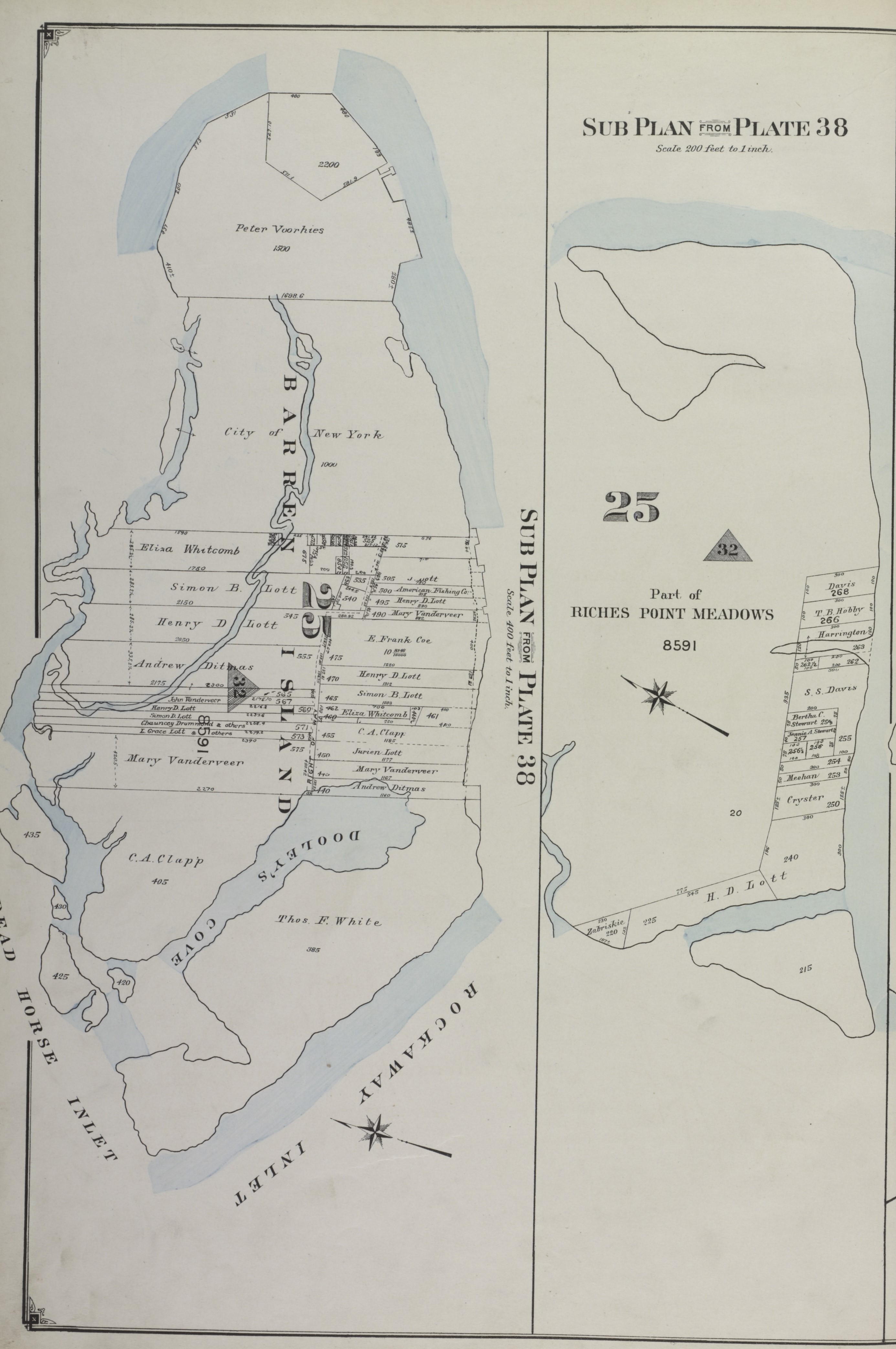 Map of Barren Island, Brooklyn; cropped version of File:Brooklyn,_Vol._3,_Double_Page_Plate_No._39;_Sub_Plan_from_Plate_38;_(Map_bounded_by_Barren_Island,_Part_of_Ruffle_Bar;_Including_Duck_Point_Marshes,_Pumpkin_Patch_Meadows)_NYPL1703808.tiff